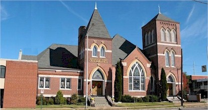 Third Presbyterian Church on 11.26.06. Photo taken by Matthew Ford.